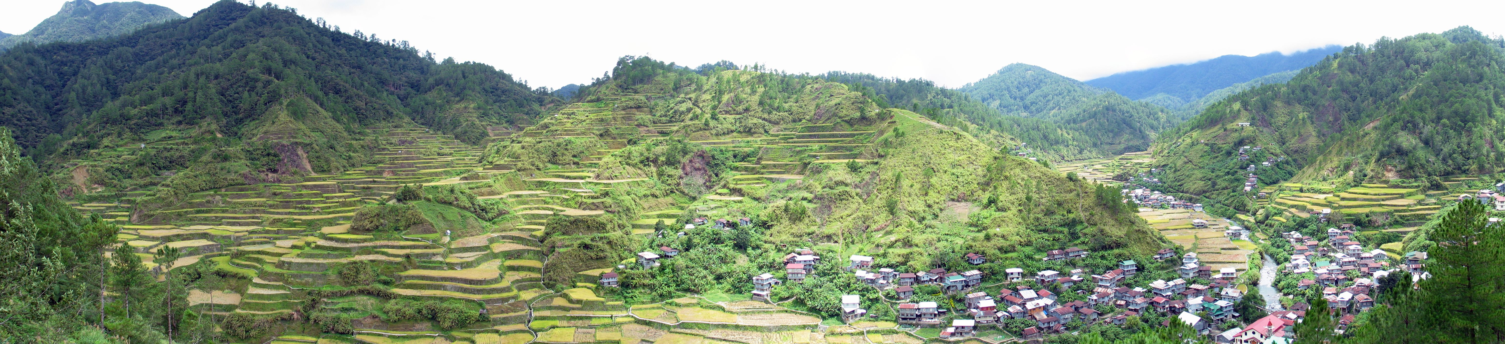 Panoramic view overlooking Barlig, Mountain Province, Northern Luzon, Philippines.